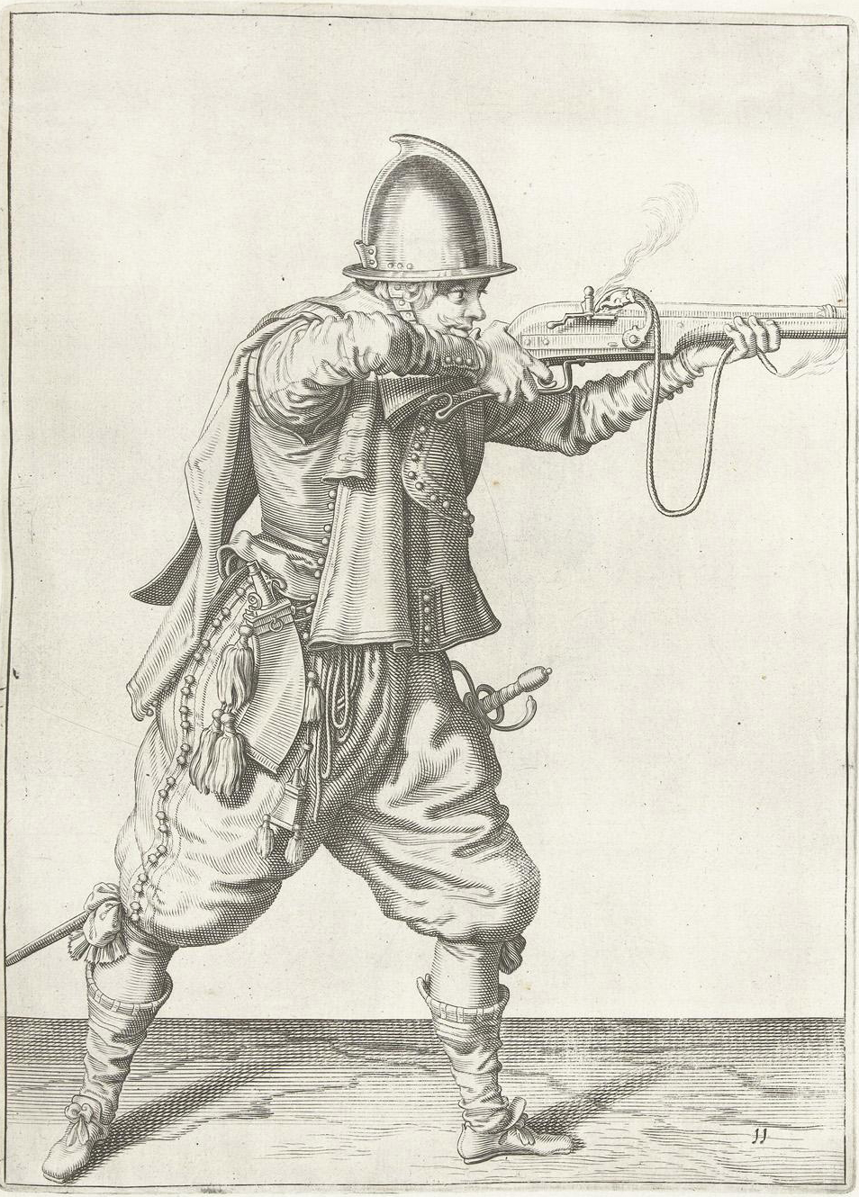 soldier with gun